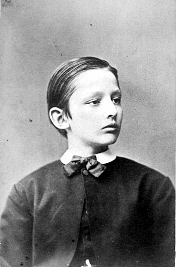 Prince Carl of Sweden and Norway as a child, 1870